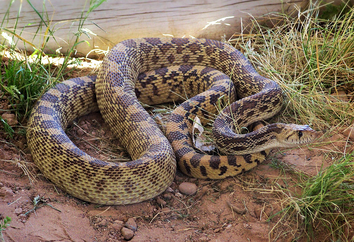 Bull snake (Pituophis catenifer sayi)